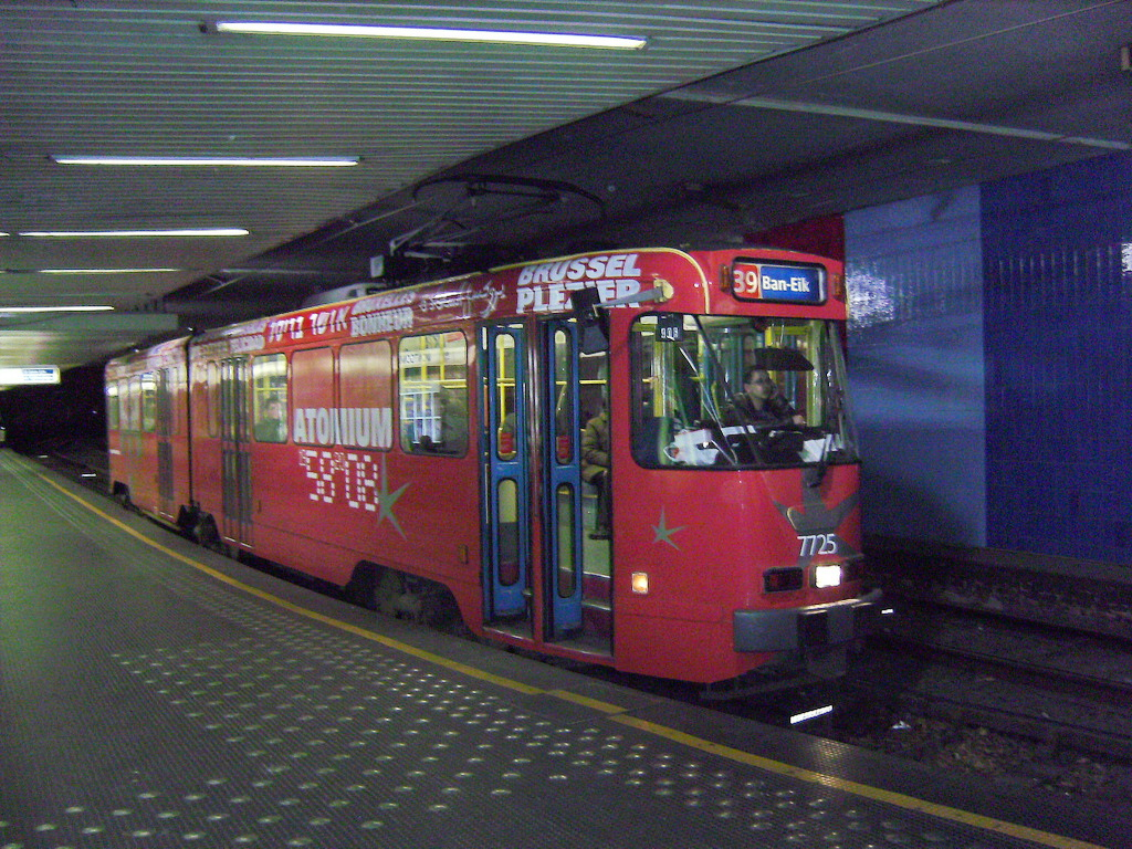 Tram at the underground station Montgomery in Brussels. Interurban tram line 39 connects Brussels with the Flemish town of Wezembeek-Oppem.Montgomery is also a terminus of another interurban tram line, 44, that connects Brussels and Tervuren.